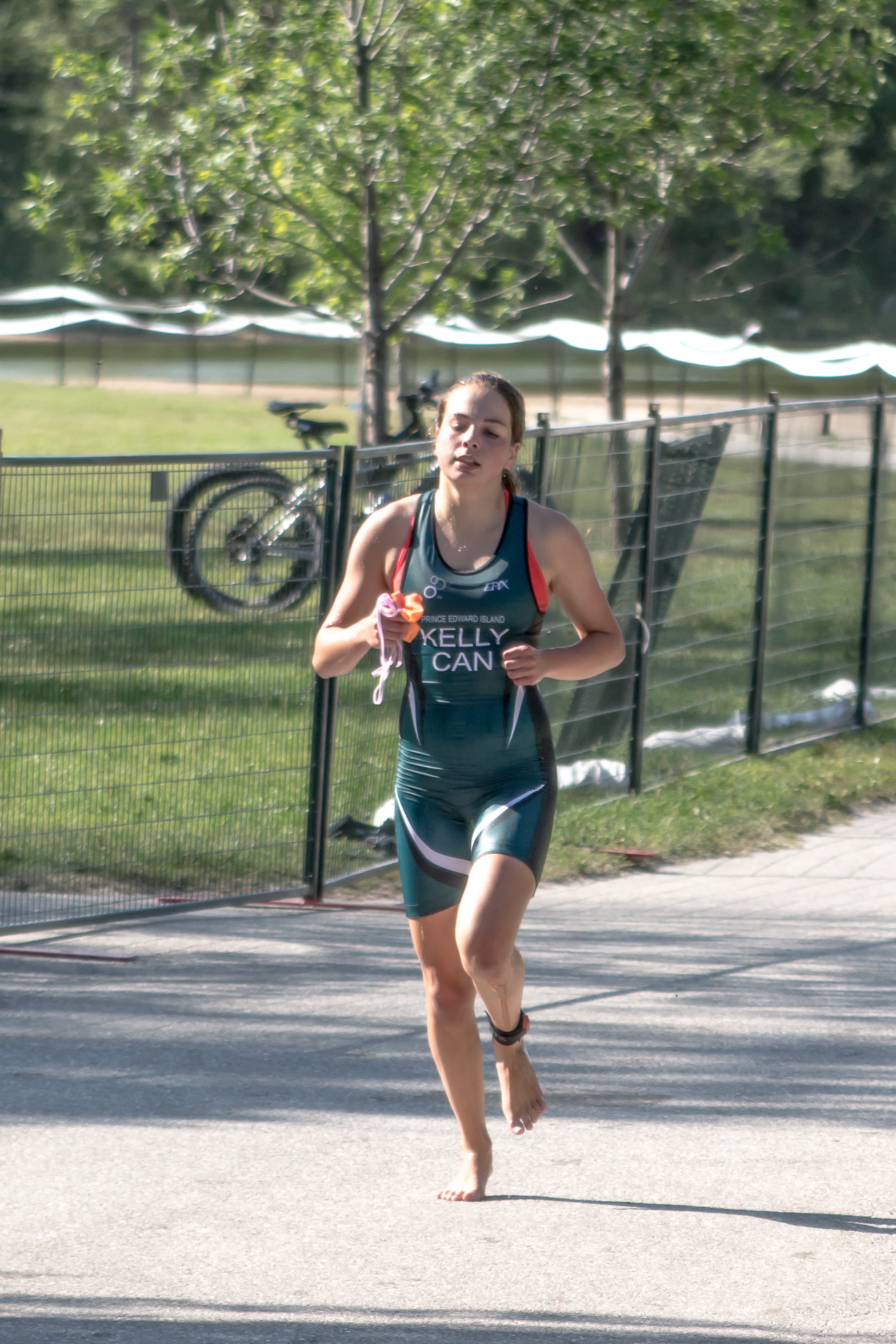 2017.07.31MONIKA_CLOUTIER_Women's_Triathalon-106